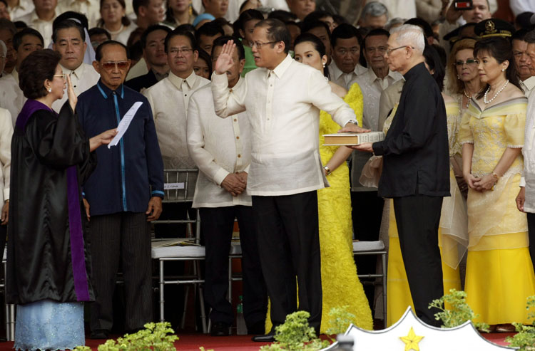 Inauguration of Benigno Aquino III as President of the Philippines. The official description is as follows: “ President Benigno Simeon Aquino III takes his oath before Supreme Court Associate Justice Conchita Carpio-Morales as the Philippines 15th President during inaugural ceremony at the Quirino Grandstand, Rizal Park in Manila Wednesday (June 30). Looking on are (from left) former president Fidel Ramos, former president Joseph Estrada, Presidential Sister Kris Aquino-Yap, Father Catalino Arevalo SJ (holding the Holy Bible), and Presidential Sister Pinky Aquino-Abellada (REY S. BANIQUET/OPS-NIB) ”